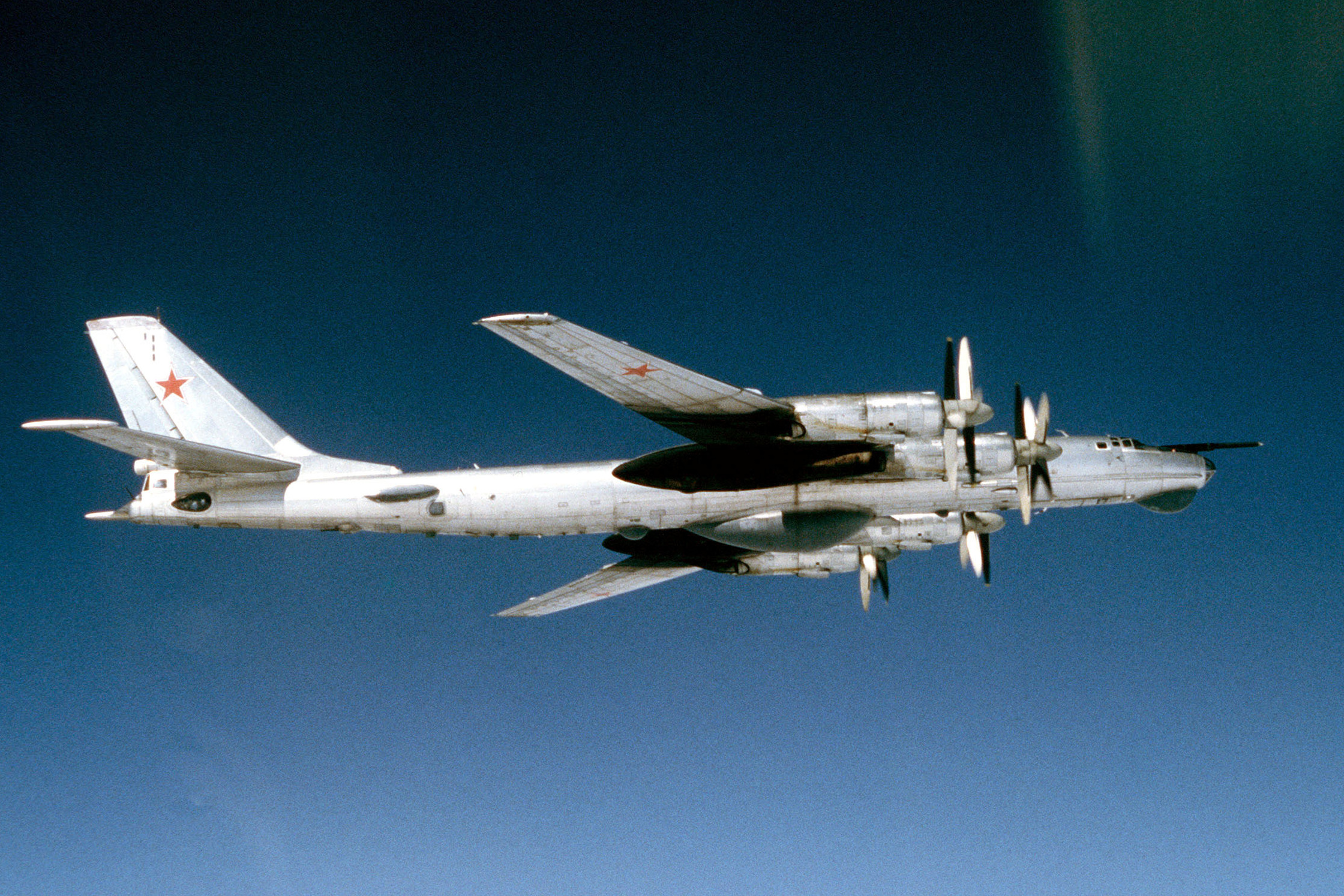 An air-to-air right side view of a Soviet Tu-95RTs Bear D strategic bomber aircraft. Date Shot: 5 May 1983